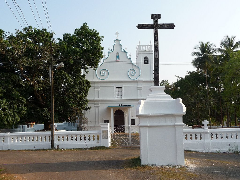 Our Lady of Grace Church (Nossa Senhora de Graça) is a Historic Church build in Chorão Island, Goa